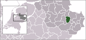 Location of Almelo